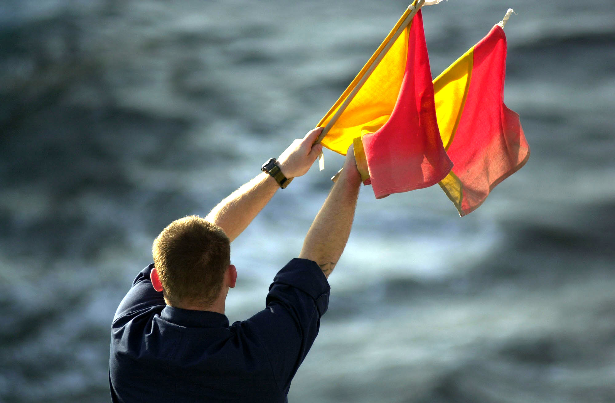 020118-N-6520M-011 At sea aboard USS Lake Champlain (CG 57) Jan. 18, 2002 -- A U.S. Navy Signalman 2nd class sends a semaphore message to the Commanding Officer of the British Royal Navy replenishment ship, HMS Bayleaf (A109), during an at sea refueling operation. Lake Champlain is conducting missions in support of Operation Enduring Freedom. U.S. Navy Photo by Photographer’s Mate 1st Class Greg Messier (RELEASED)